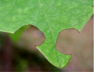 Evidence of Leafcutting on Redbud